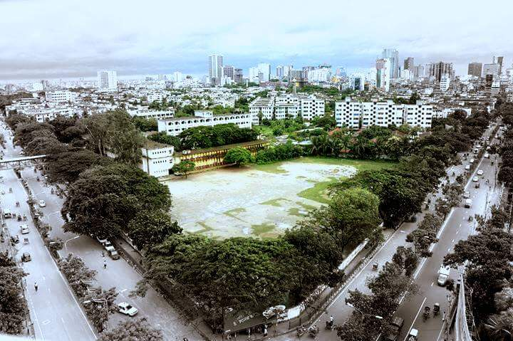 Bird's eye view of Motijheel Govt. Boys' High School